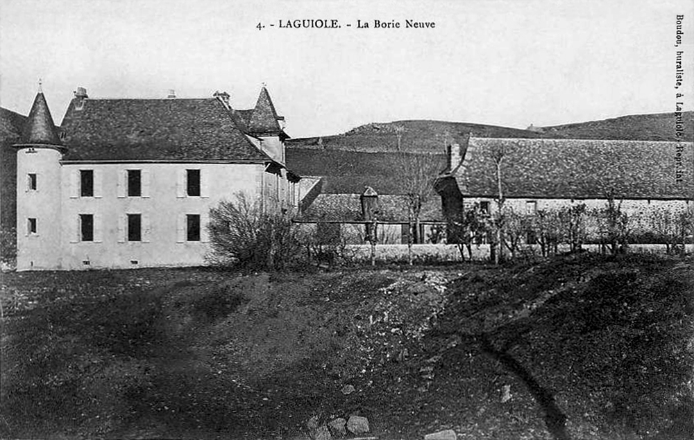 Postcard showing the place called La Borie Neuve at Laguiole, Aveyron (France) in the first decade of the 20th century.